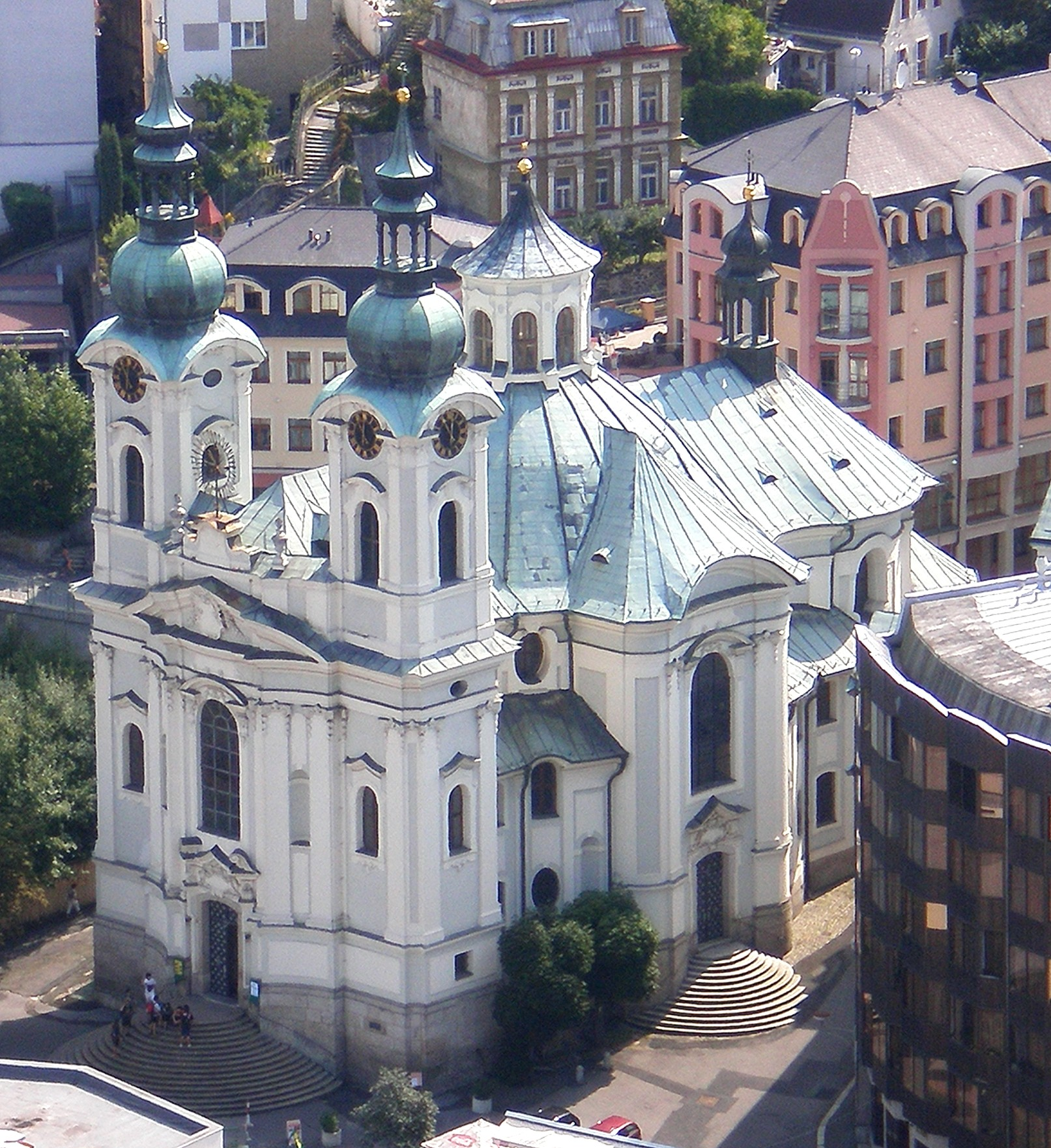 St. Mary Magdalene's Church, Karlovy Vary, Czech Republic (View from Peter teh Great watch-tower)